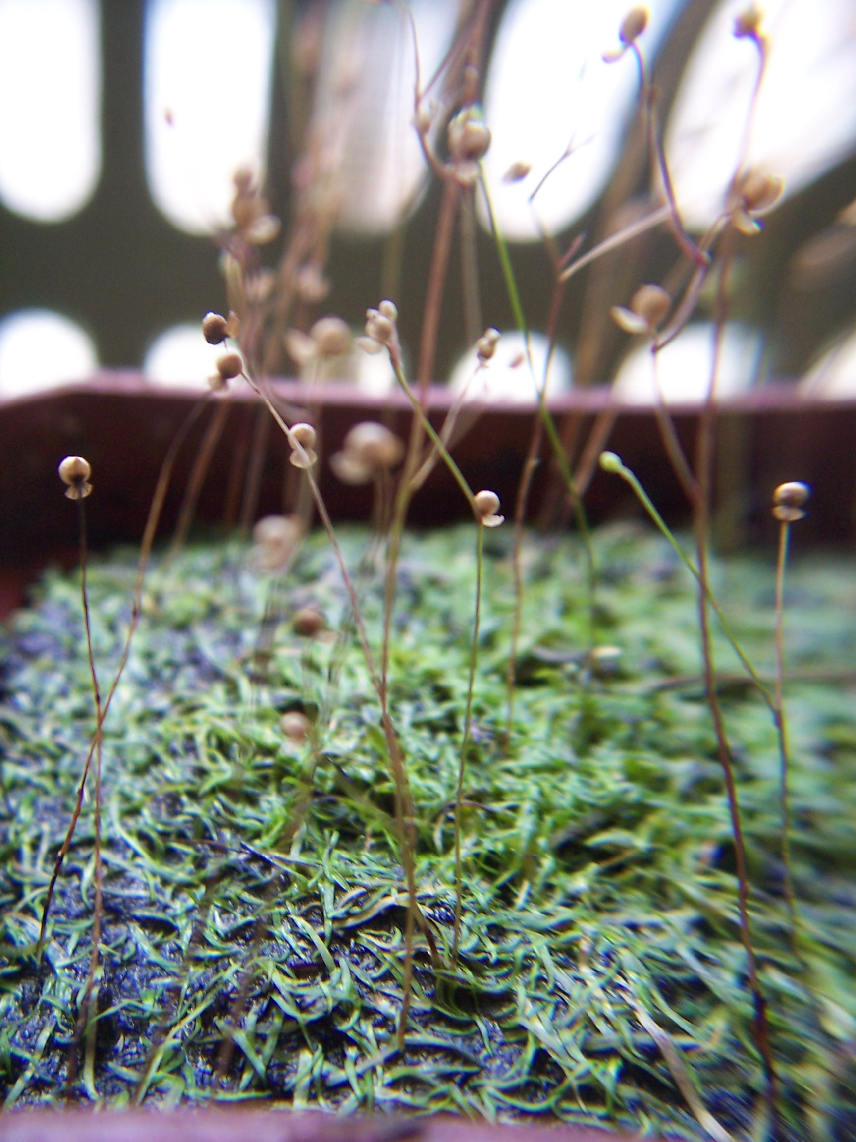 Utricularia subulata 's leaves.